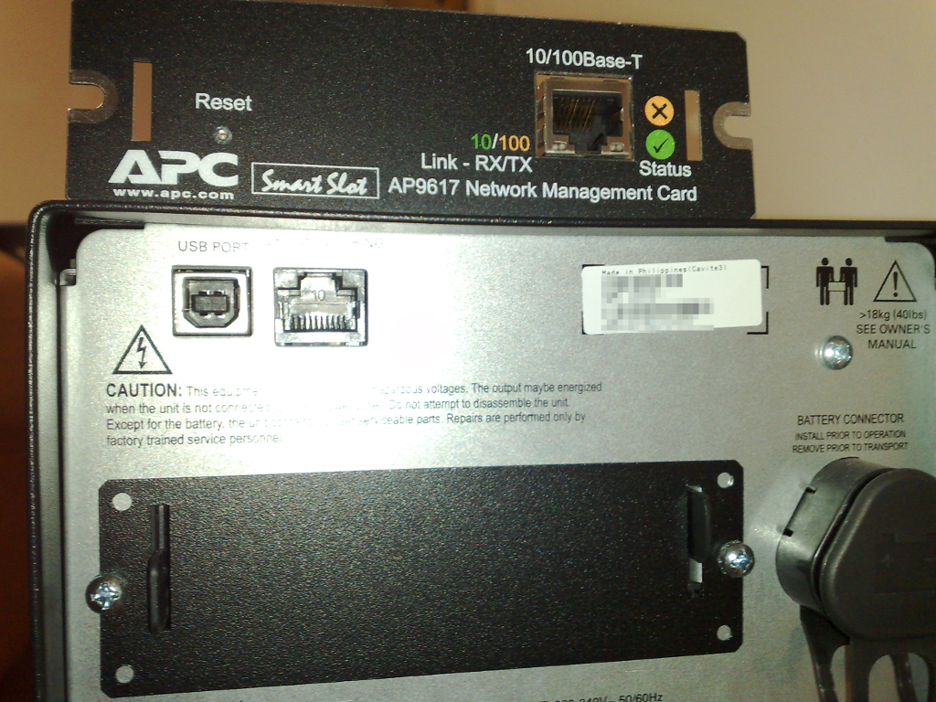 An APC Smart Slot card AP9617 sitting on top of an APC Smart-UPS SMT1500I, showing the differences in slot keying between those two versions of the Smart Slot interface (AP9617 uses an older version, while SMT1500I uses a newer version).